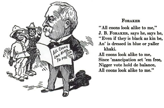 Image cropped from the Gridiron Dinner program for January 1907. The crop is taken from [1]. The front cover and other parts of the program are shown here. Note that they are obviously from the same document, the same cartoon and doggerel about Roosevelt are reproduced in both.